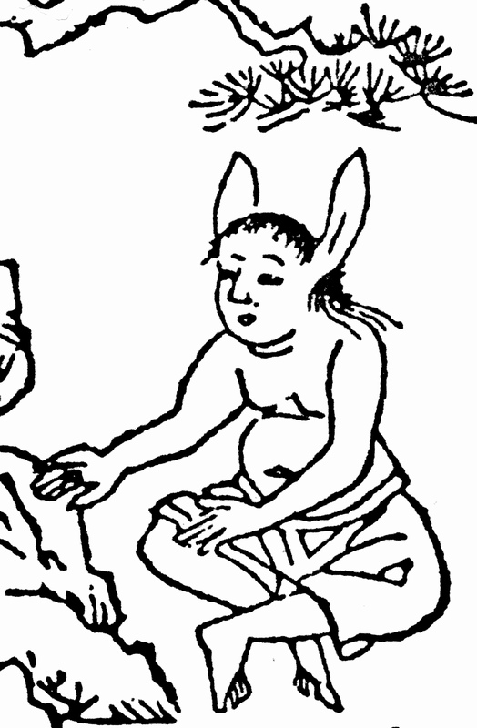 Mōryō (魍魉, a long-eared, corpse-eating spirit) from Wakan Sansai Zue